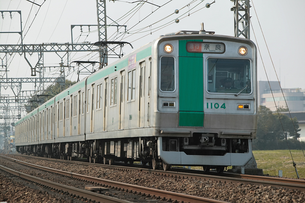 Kyoto Municipal Transportation Bureau Subway 10 Series early type whitch on Kintetsu Nara Line